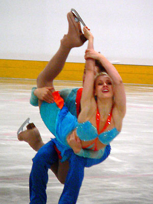 Madison Hubbell and Keiffer Hubbell during their free dance at the 2006 Junior Grand Prix event in The Hague, Netherlands